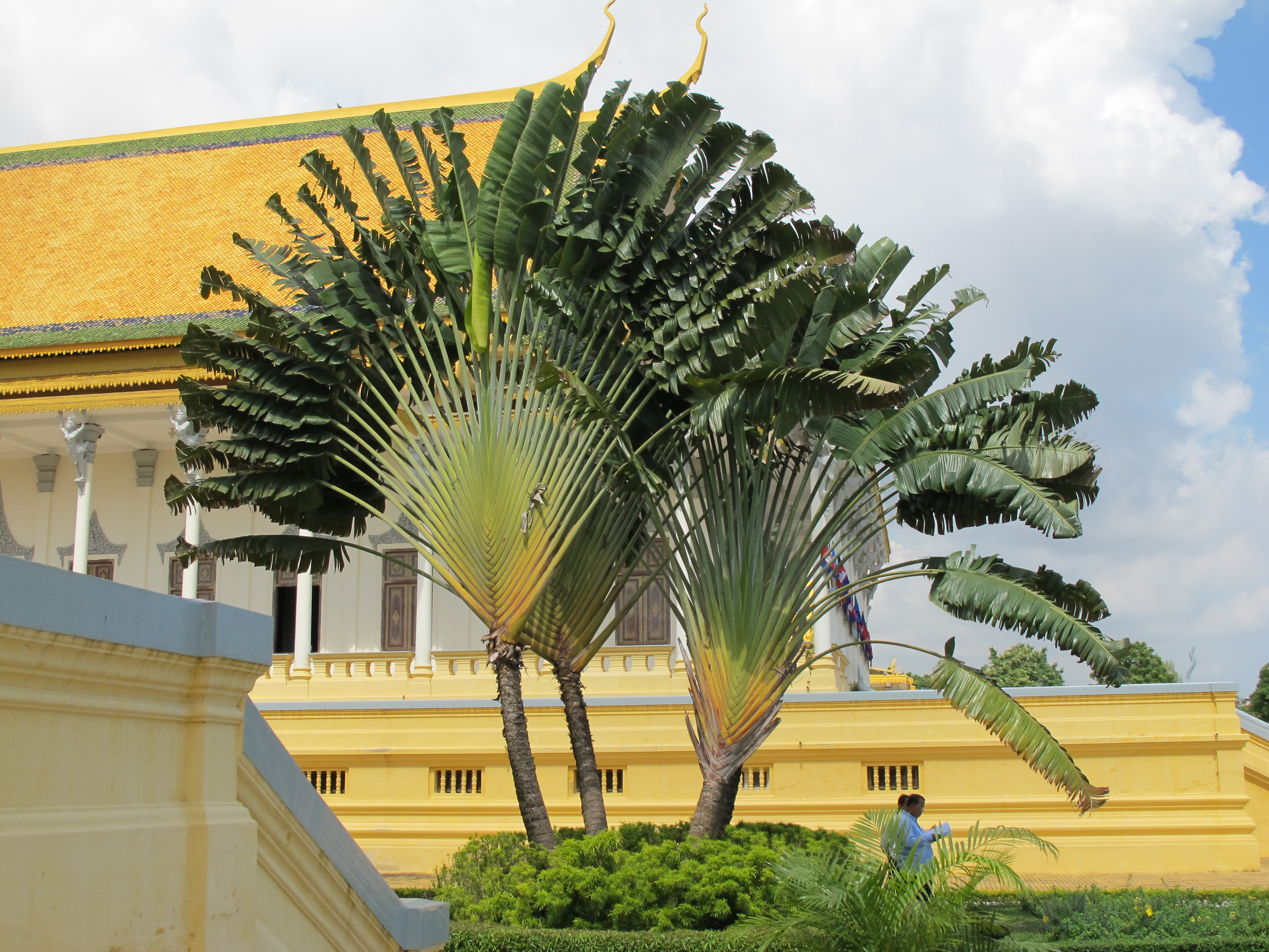 « Traveller's Tree » in the gardens of Royal Palace, Phnom Penh (Cambodia)